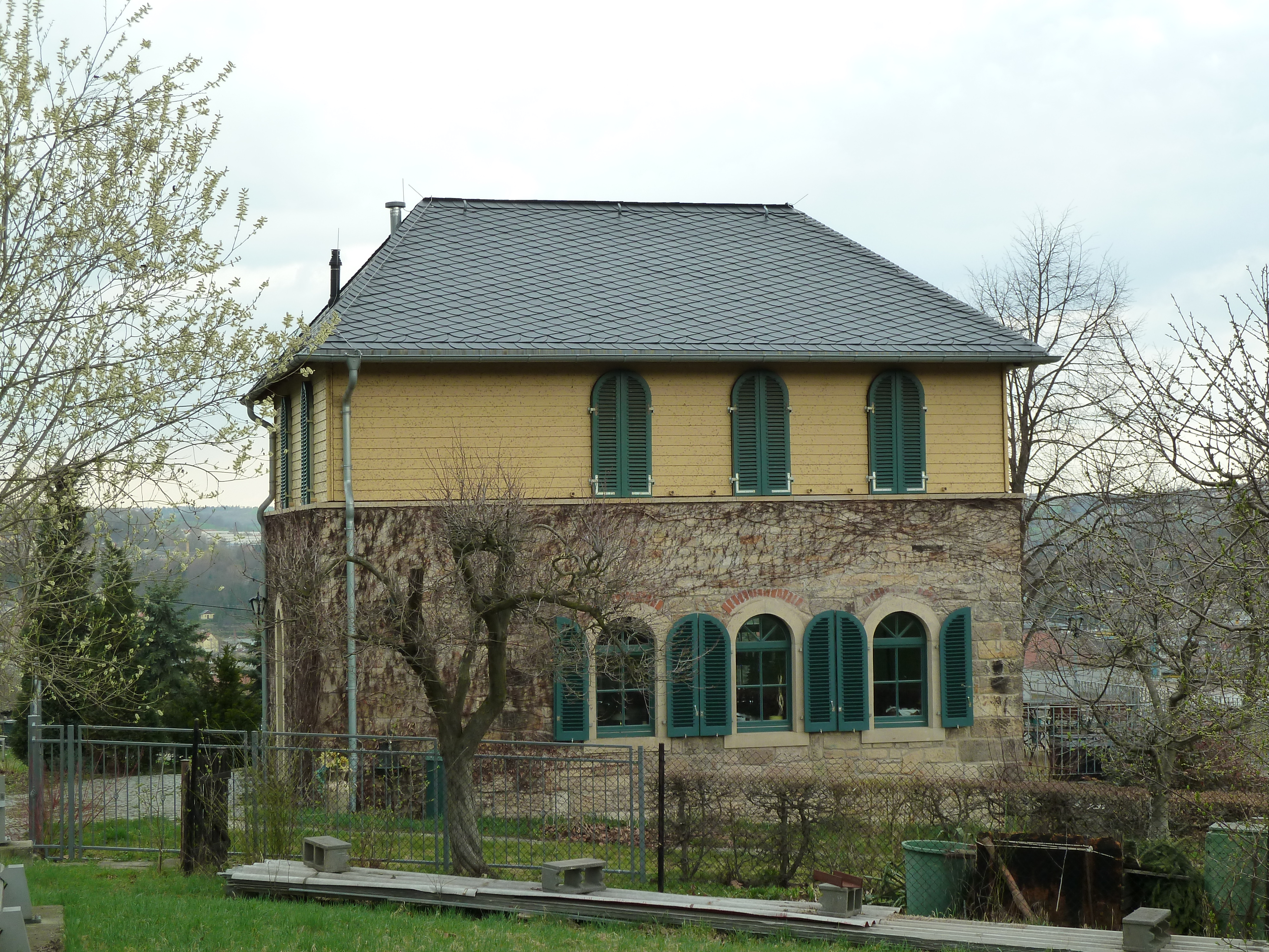 Freital-Burgk-colliery, power-house (1838?) for steam-engine and pump, draining the Wilhelmina-mine (1822–1930).